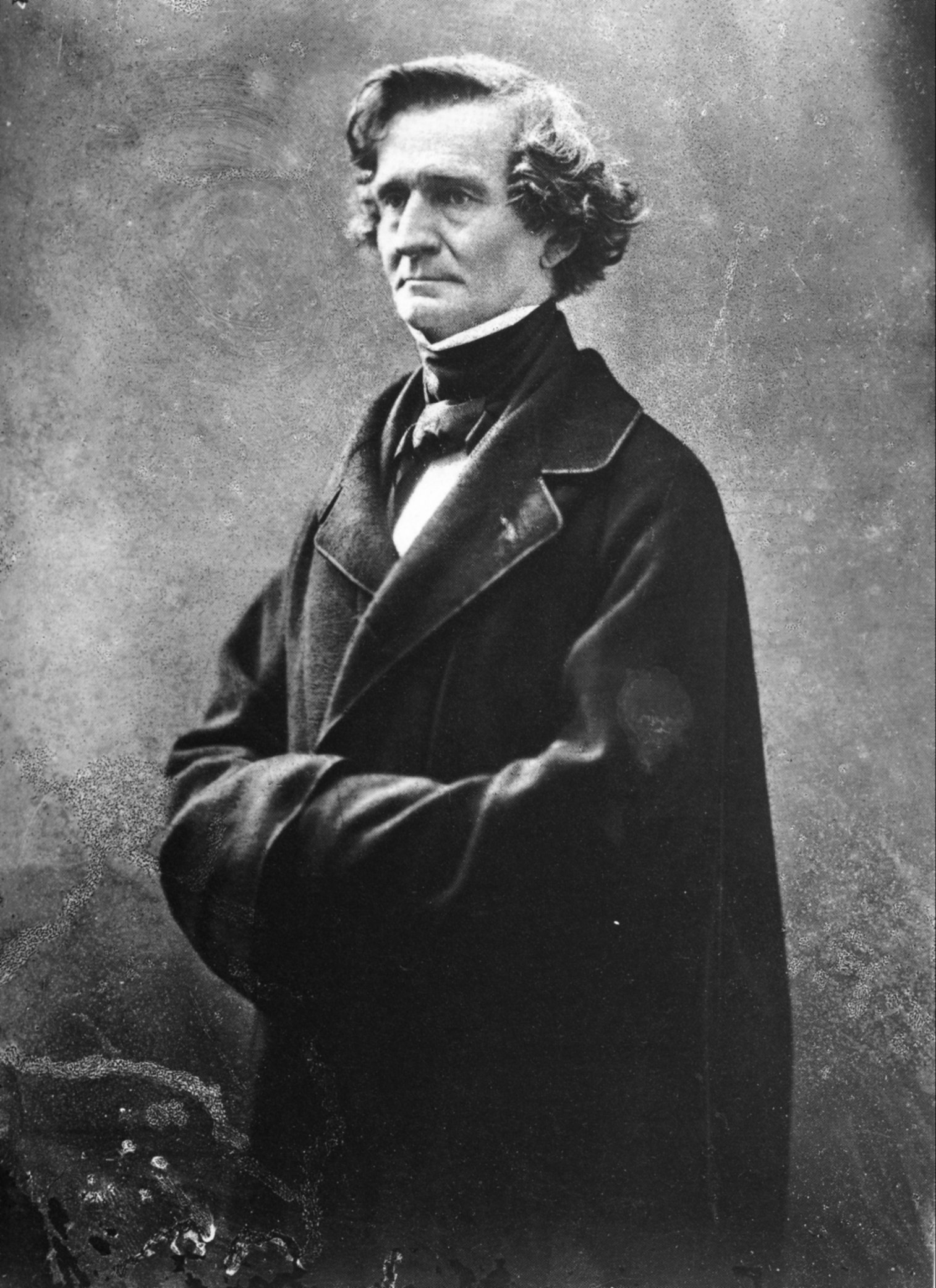 Photography of Hector Berlioz by Félix Nadar